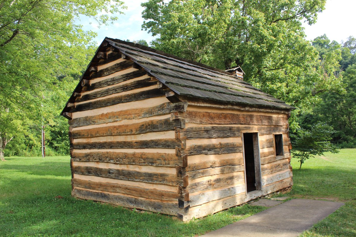 Abraham Lincoln Birthplace National Historic Site